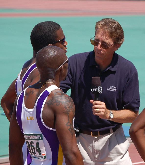 Photo of 3 men, one of whom is Dwight Stones